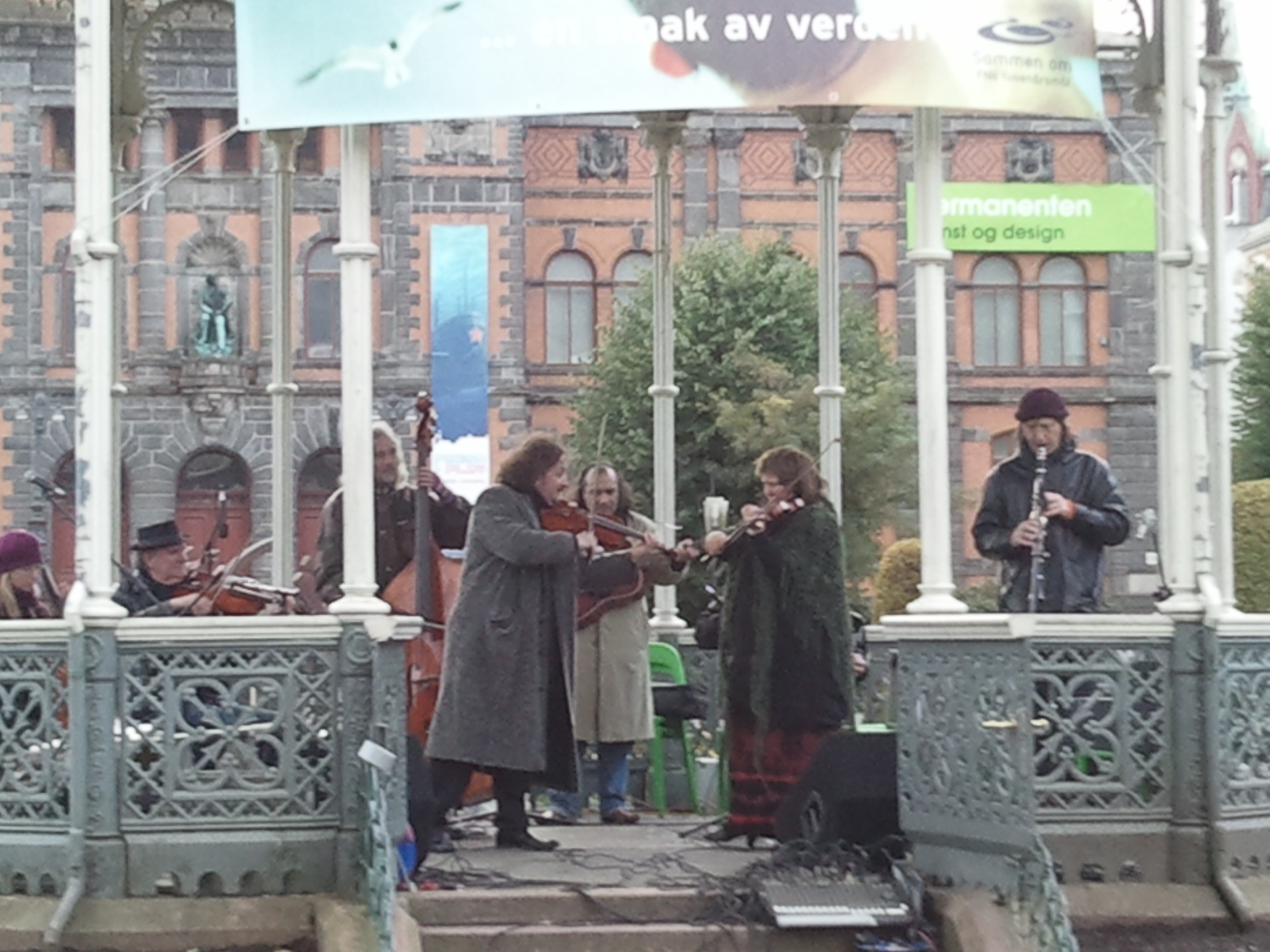 Gjertruds sigøynerorkester performing in Bergen, Norway. The show was part of the celebration of the UN-Day 2010.